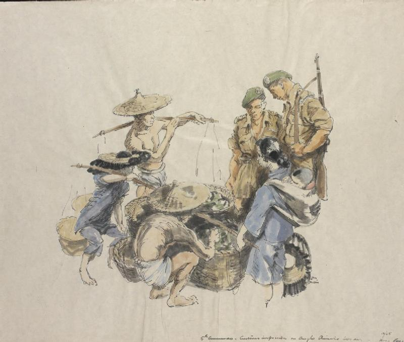 5th Commando - Custom Inspection on the Anglo-Chinese Frontier, Hong Kong, 1945 image: two British soldiers inspect the contents of a group of Chinese civilians' baskets. Three of the civilians are male and wear wide-brimmed straw hats; the fourth is a woman with a baby strapped to her back.